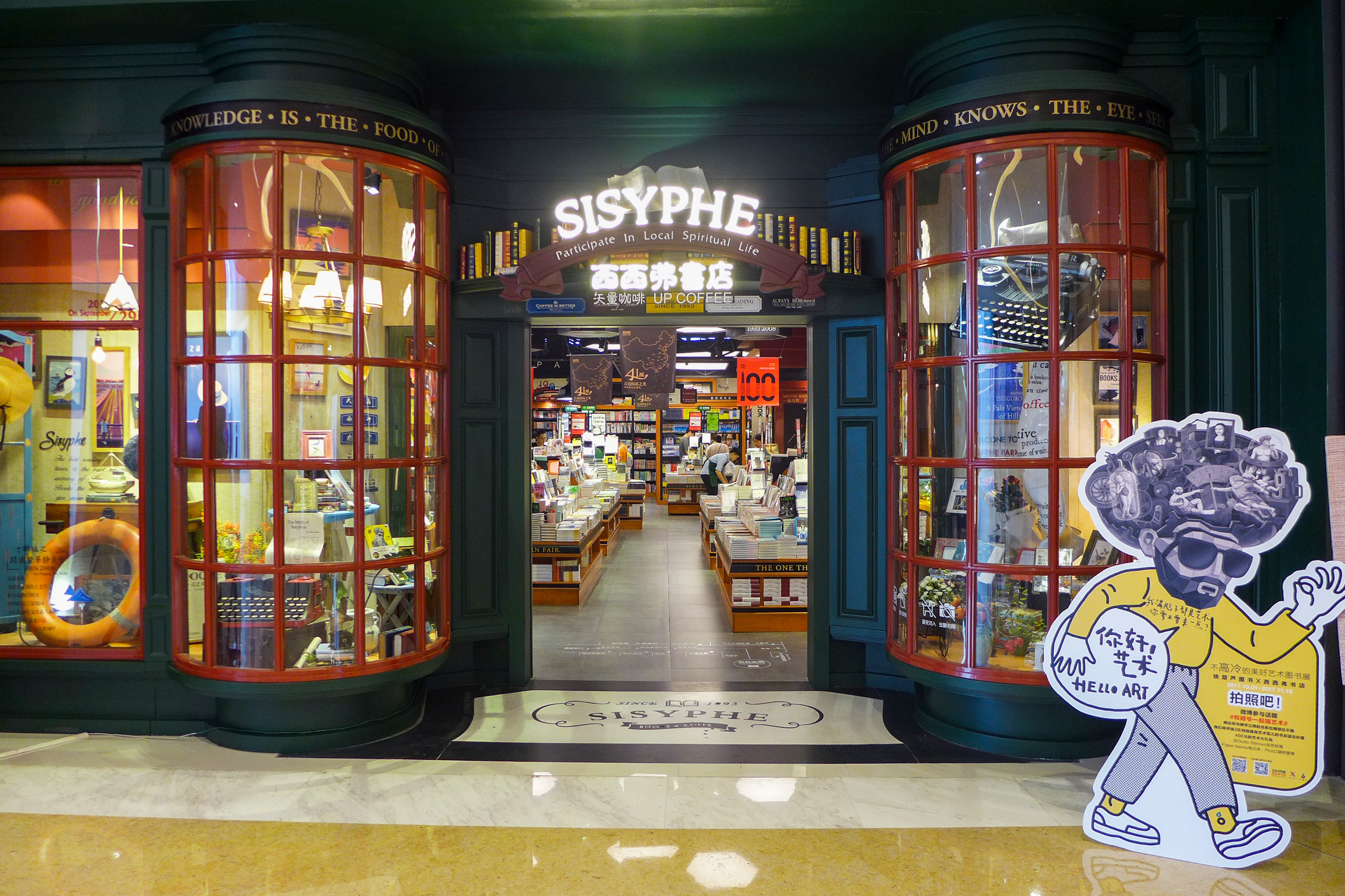 Sisyphe Bookstore in Shenzhen OCT harbour